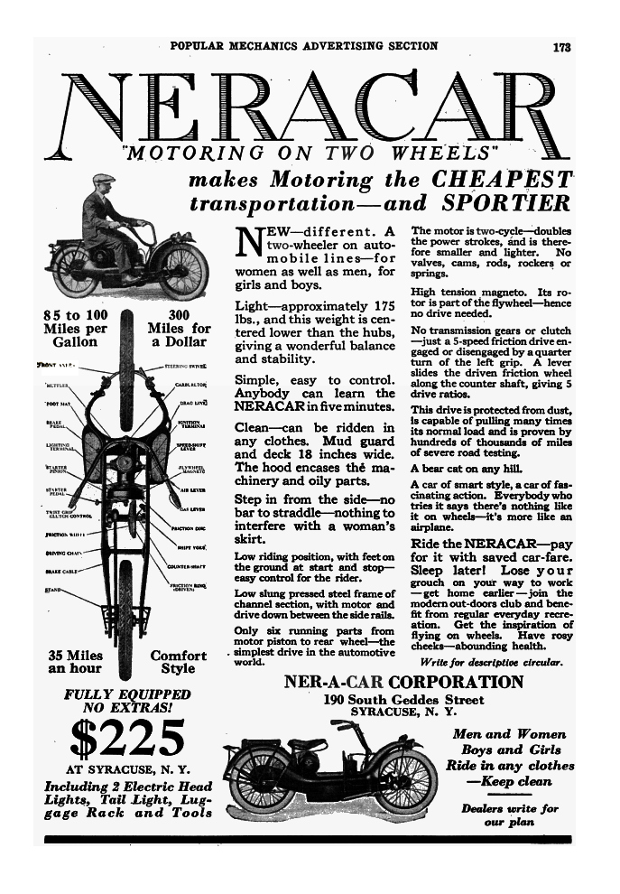 Neracar advertisement published in July 1922 in Popular Mechanics. Includes a labelled diagram of a Neracar chassis, although the labels are hard to read at this resolution.